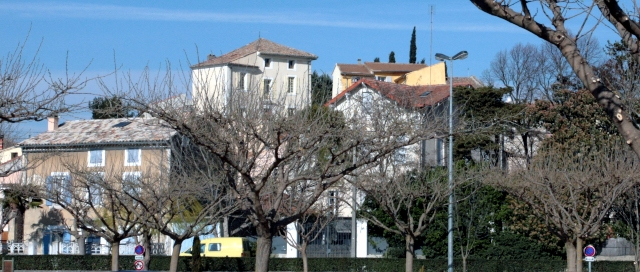 The village of Velleron, Vaucluse, France